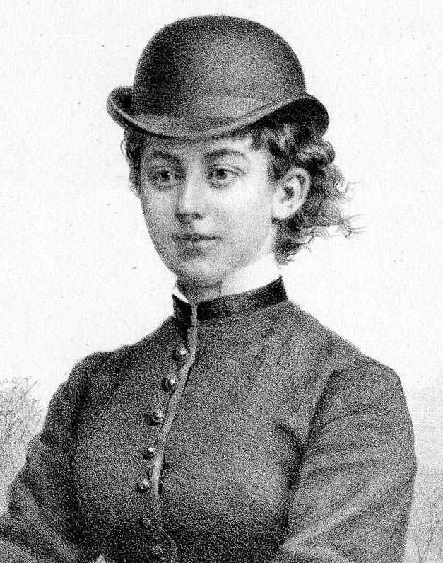 Lady Florence Dixie (24 May 1855 – 7 November 1905) was a British traveller, war correspondent, writer and feminist. Her maiden name was Lady Florence Caroline Douglas.